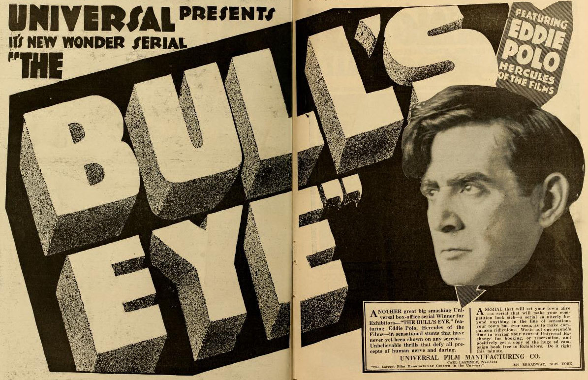 Advertisement in Moving Picture World, Jan 1918, with Eddie Polo in the 1917 American film serial Bull's Eye (1918).